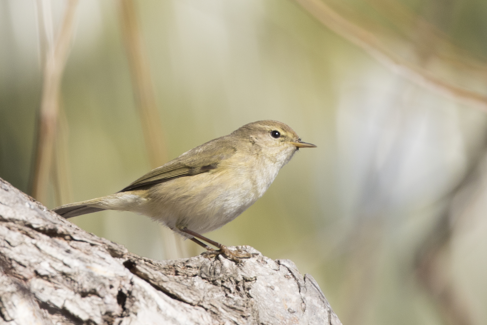 Willow Warbler (Phylloscopus trochilus). Eskibaraj Dam Lake, Adana - Turkey.